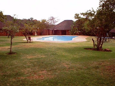 Rolf Moës, photo taken by author in 2003 in Dikhololo Game Reserve